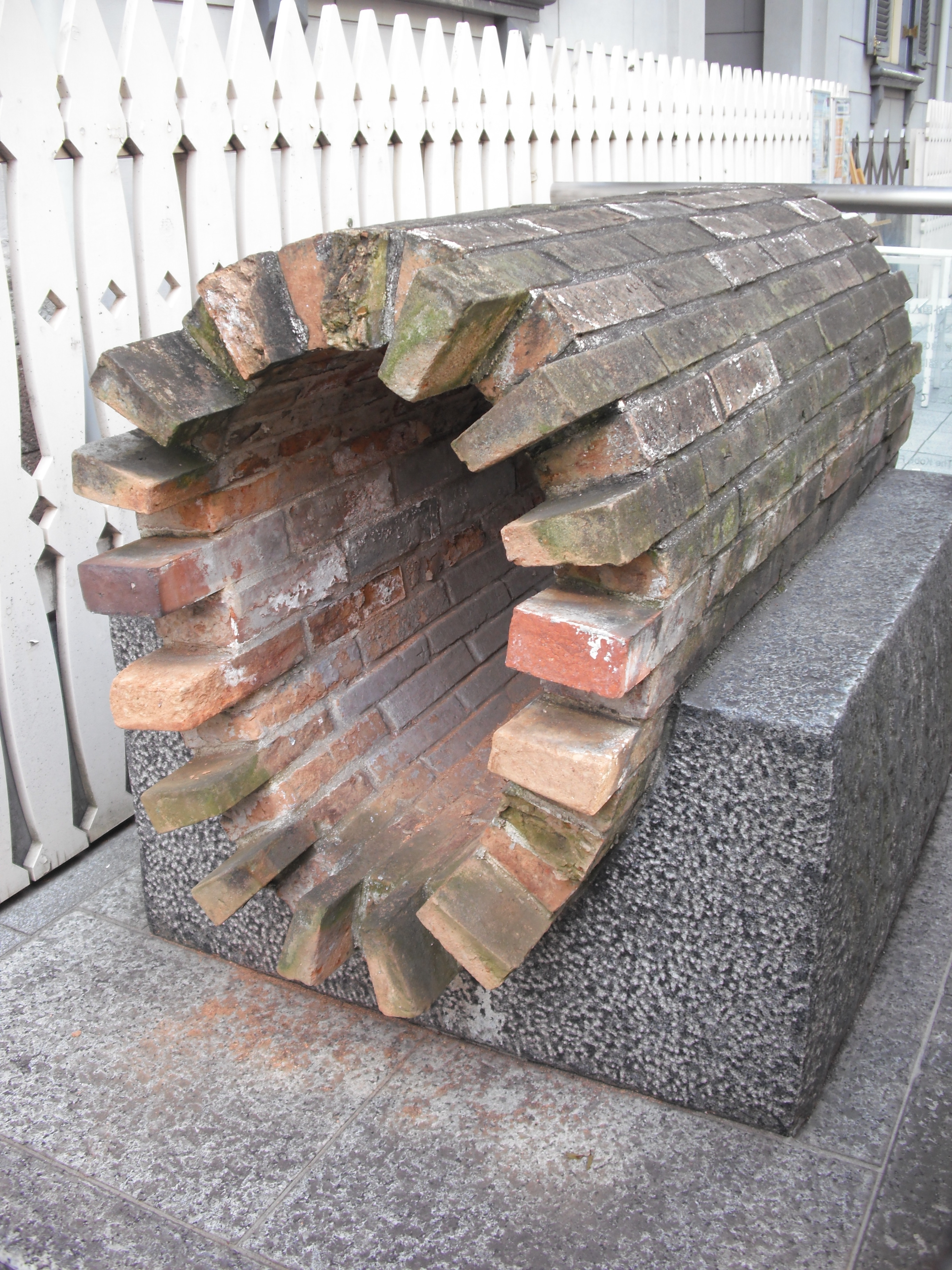 The Old Settlement Hall of No.15 in Kobe, Japan